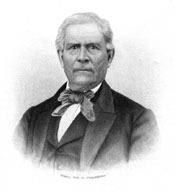 Drawing of Isaac Funk from an Illinois Wesleyan University page, courtesy of the McLean County Museum of History. Funk died in 1865.